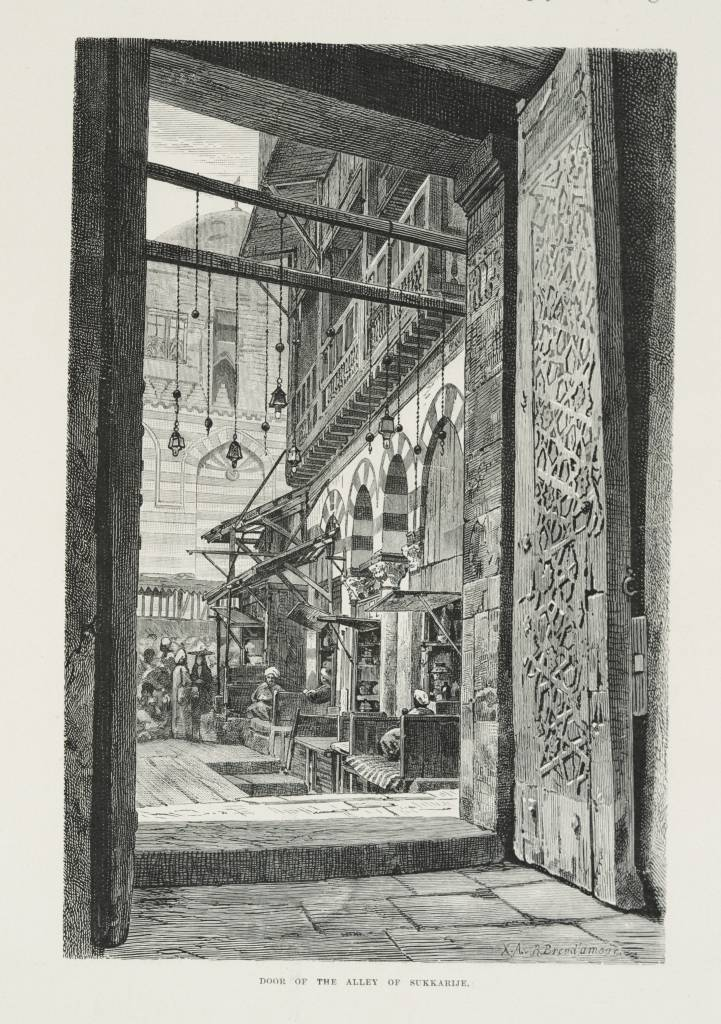 A tall doorway into an alleyway in Cairo where shops are set up. (Medieval Cairo district )